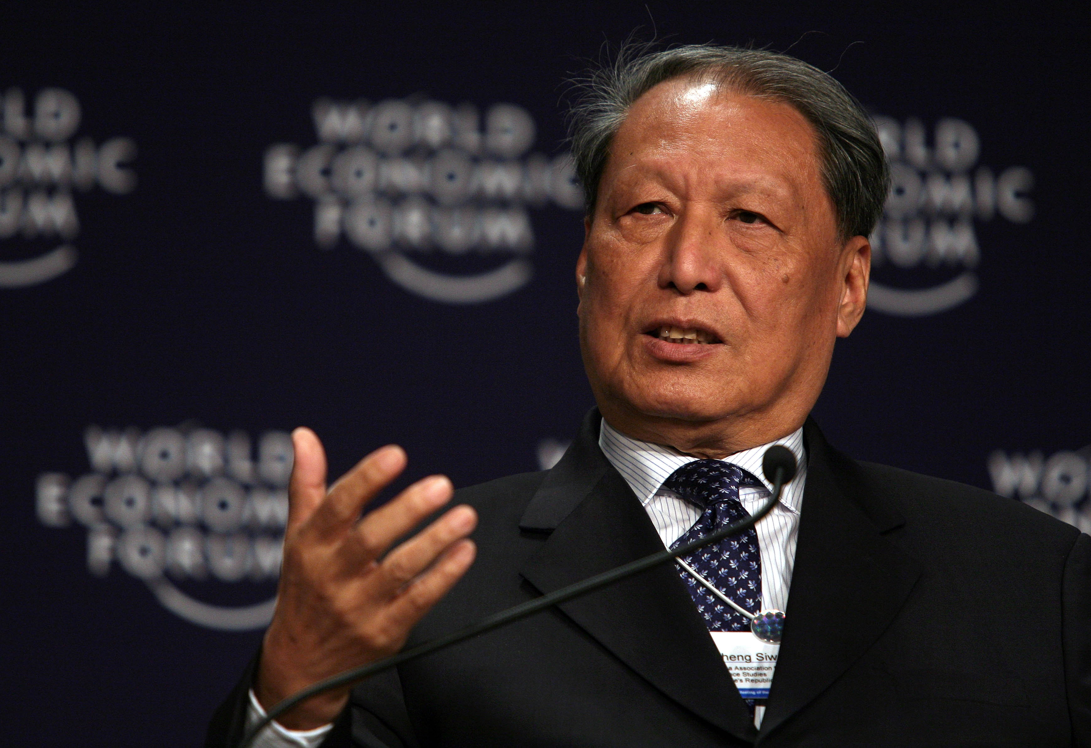 TIANJIN/CHINA, 28SEPT08 - Cheng Siwei, President, China Association for Soft Science Studies, speaks during The Future of the Global Economy: The View from China plenary session at the World Economic Forum Annual Meeting of the New Champions in Tianjin, China 28 September 2008. Copyright World Economic Forum ( by Natalie Behring